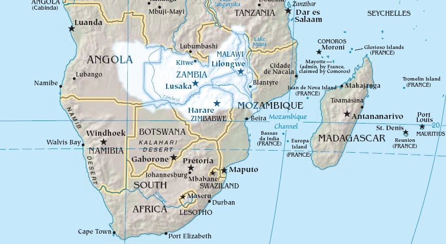 Zambezi river basin.